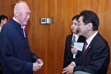 Yoshito Sengoku, Member of the House of Representatives, met Lee Kuan Yew, former Minister Mentor, in Singapore on May, 2012.